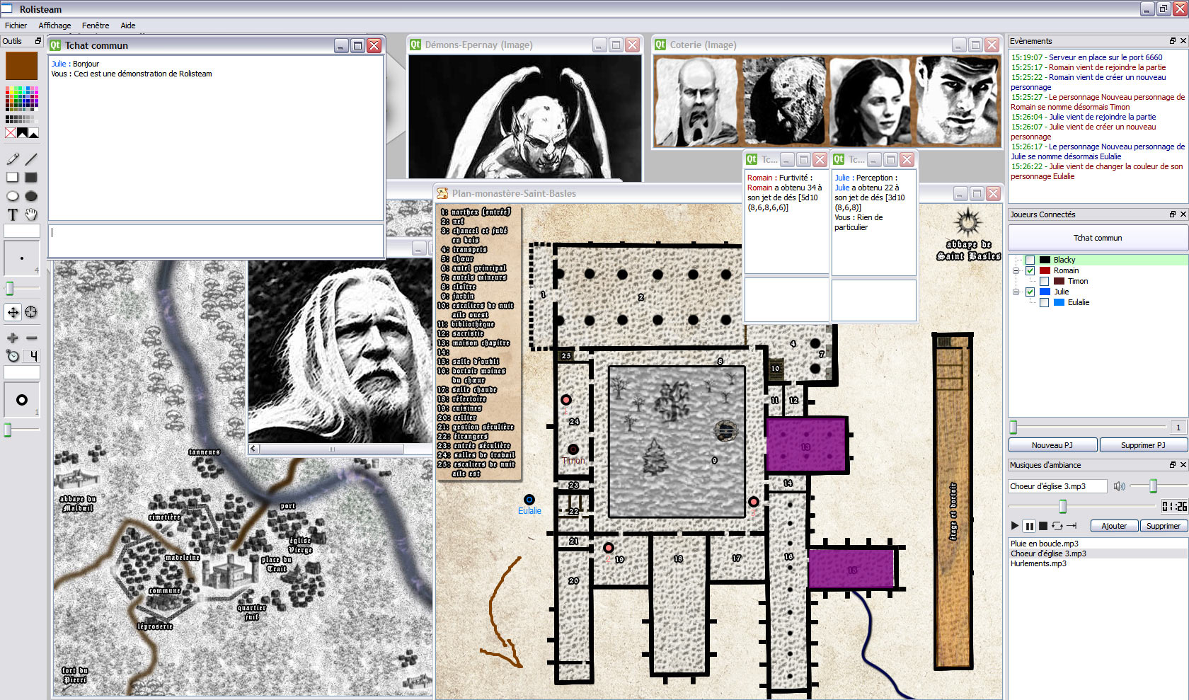 Screenshot of Rolisteam 1.03 on Windows XP.